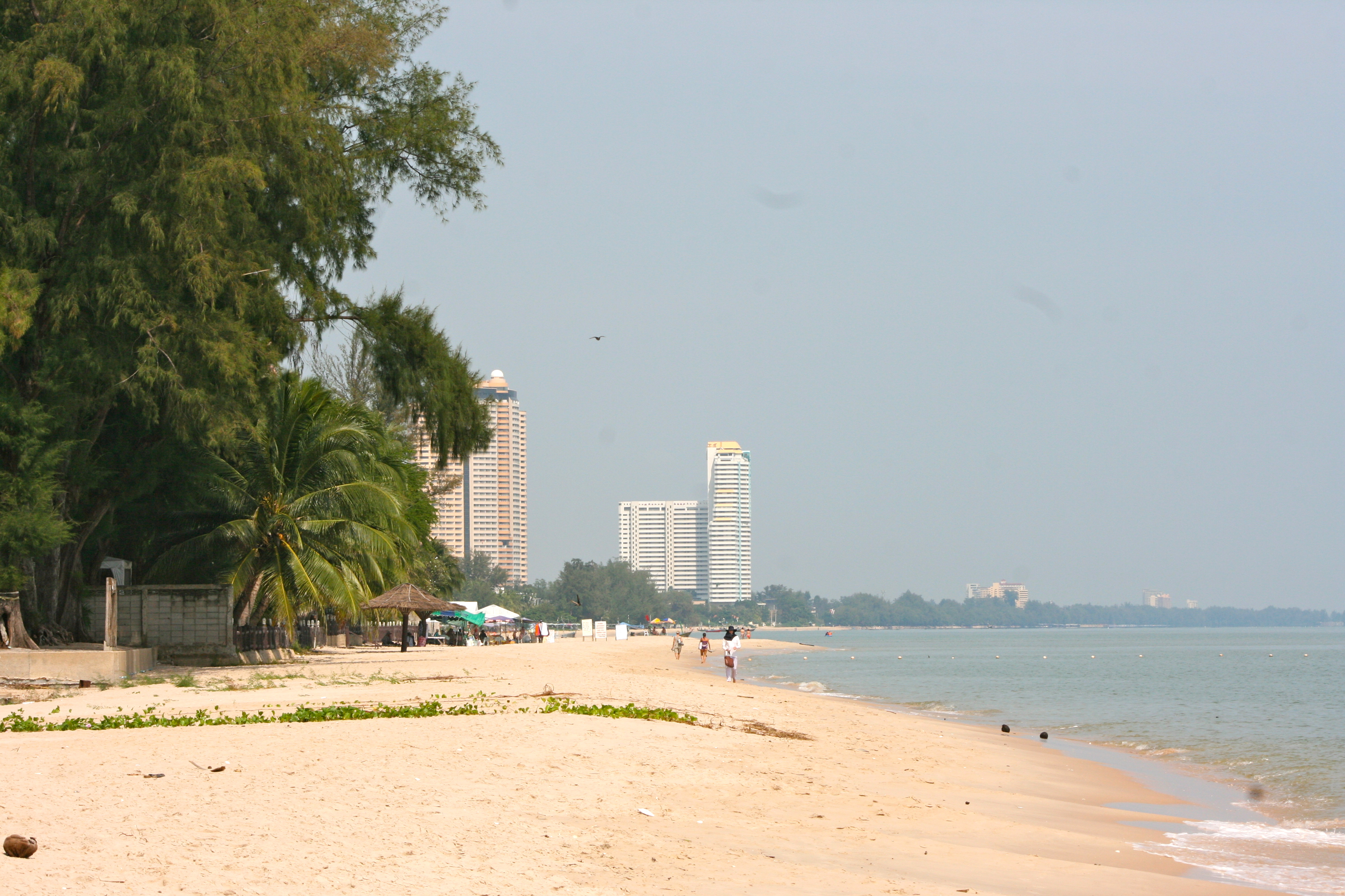 The beautiful beach at Cha'am. This photo was taken just outside the Holiday Inn Regent Beach,looking north